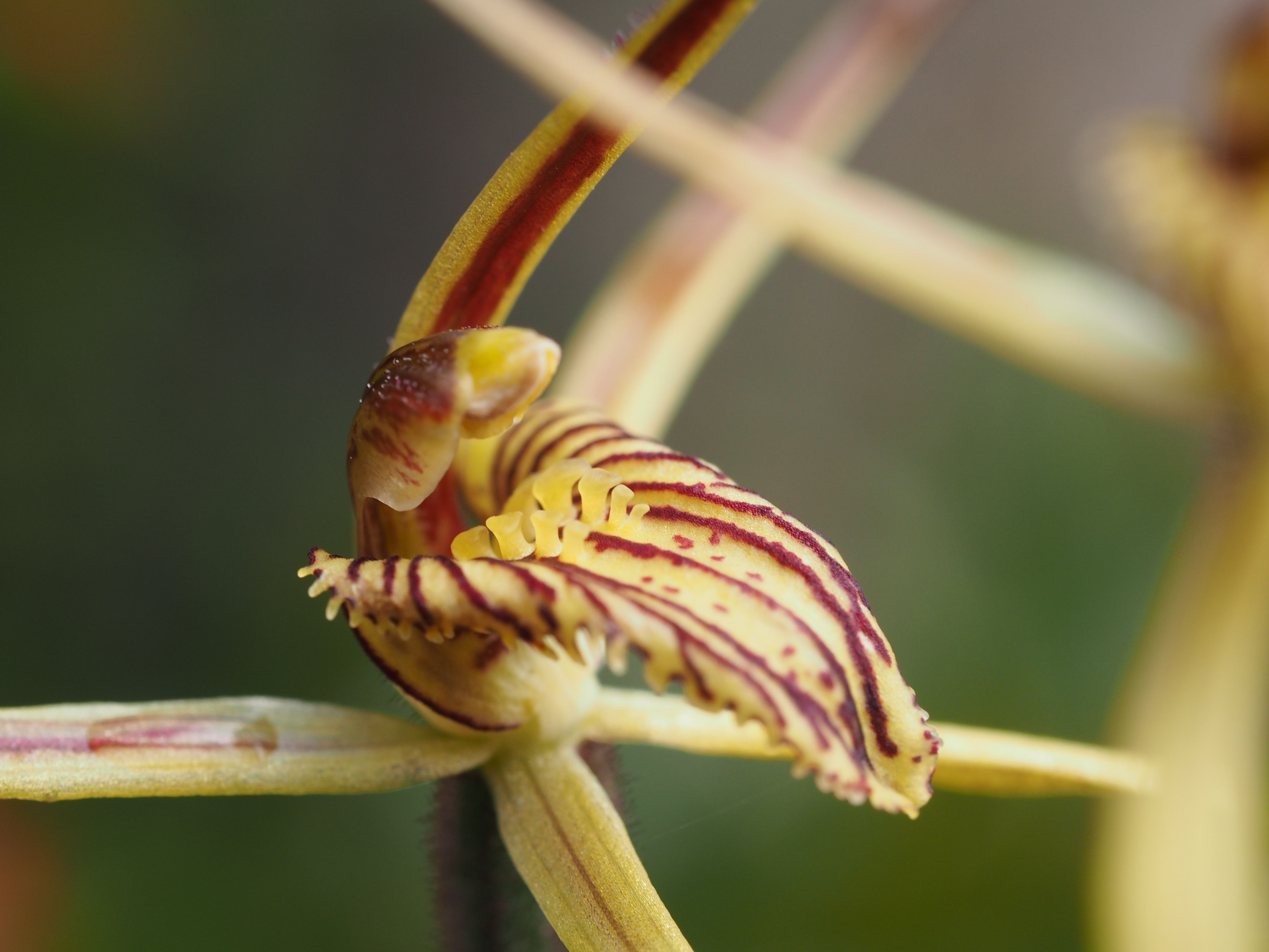 Caladenia caesarea subsp. maritima growing near Dunsborough, Western Australia